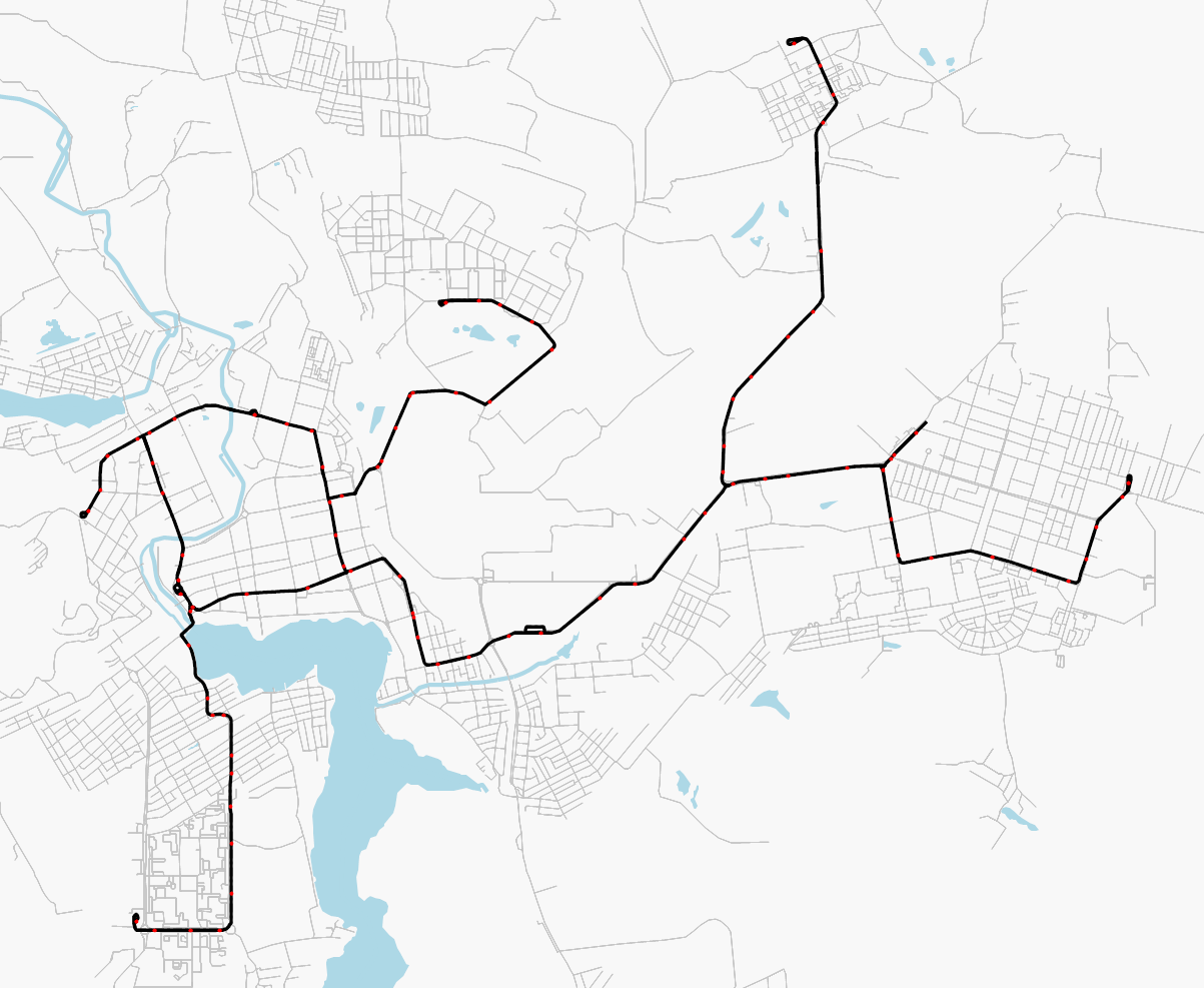 Nizhniy Tagil tram system, rendered using OSM data. This map may be incomplete, and may contain errors. Don't rely solely on it for navigation.